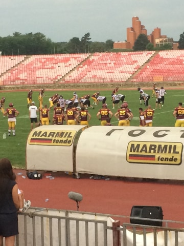 Serbian Bowl XV (Wild Boars-Vukovi)